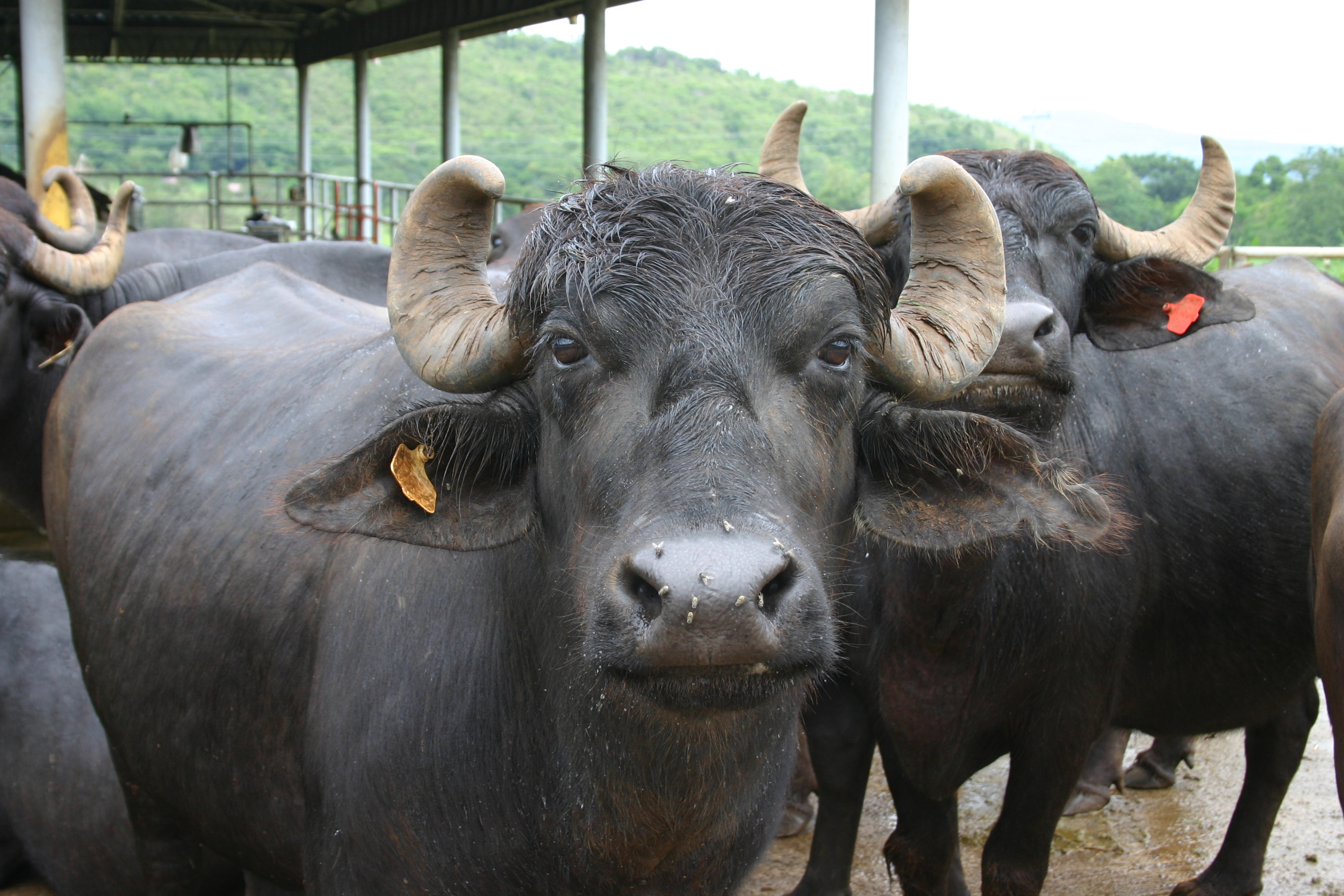 Murrah buffaloes in the Philippine Carabao Center (PCC) at its Central Mindanao University (CMU) facility in Maramag, Bukidnon. This breed of water buffaloes have been used by the Philippine government to upgrade the dairy industry of the country.